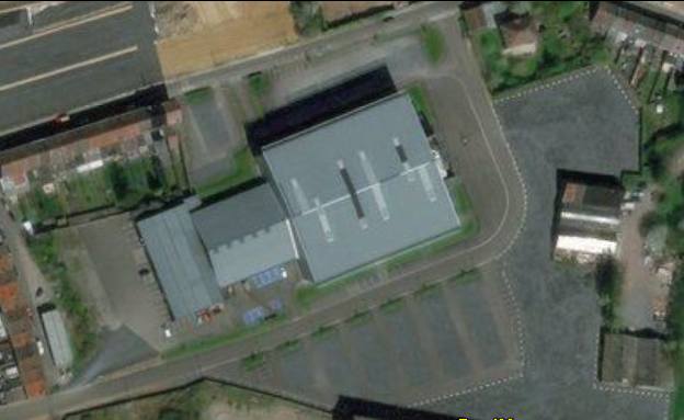 Satellite view